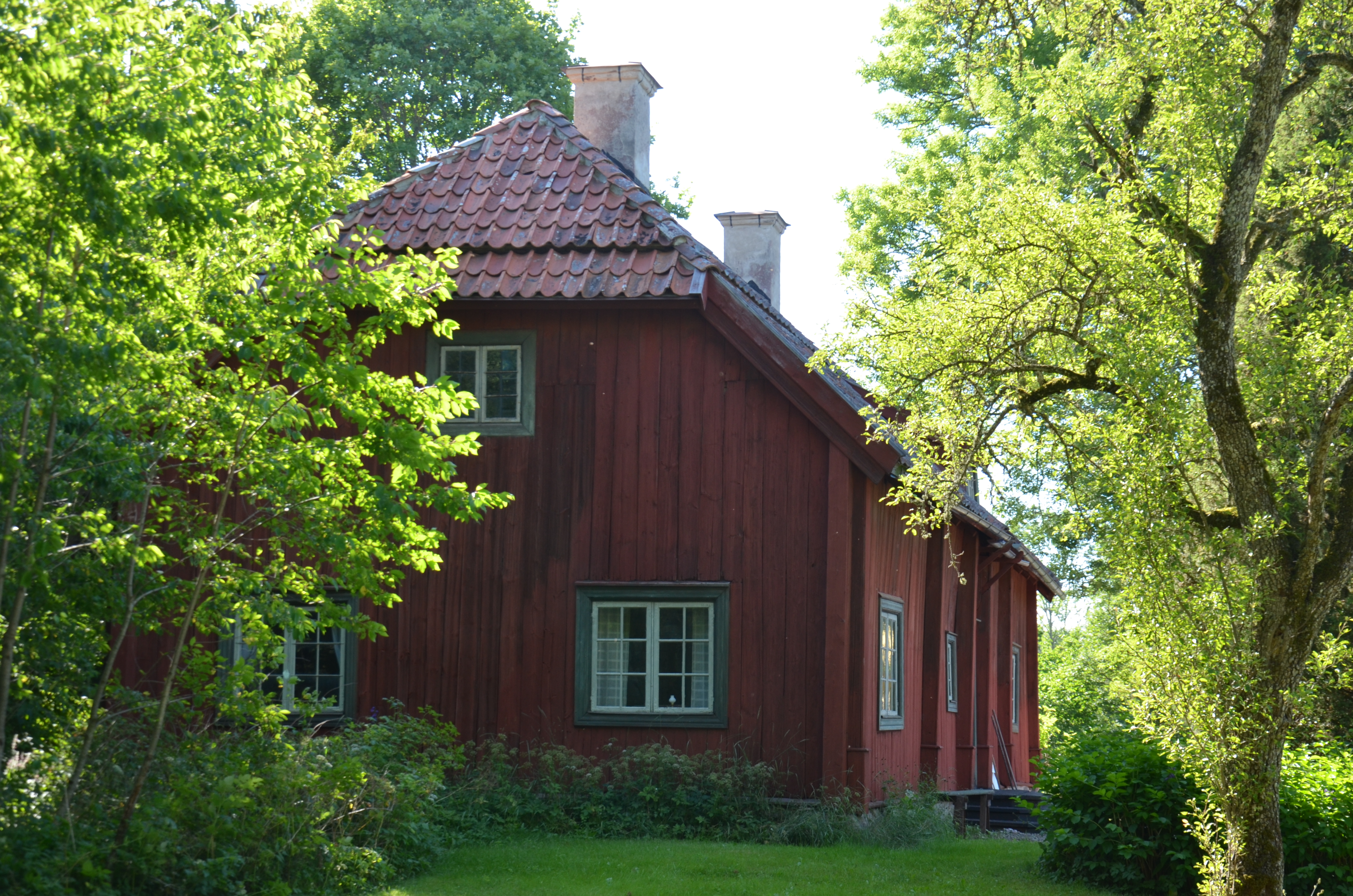 Korsnäs prästgård, Söderköpings kommun